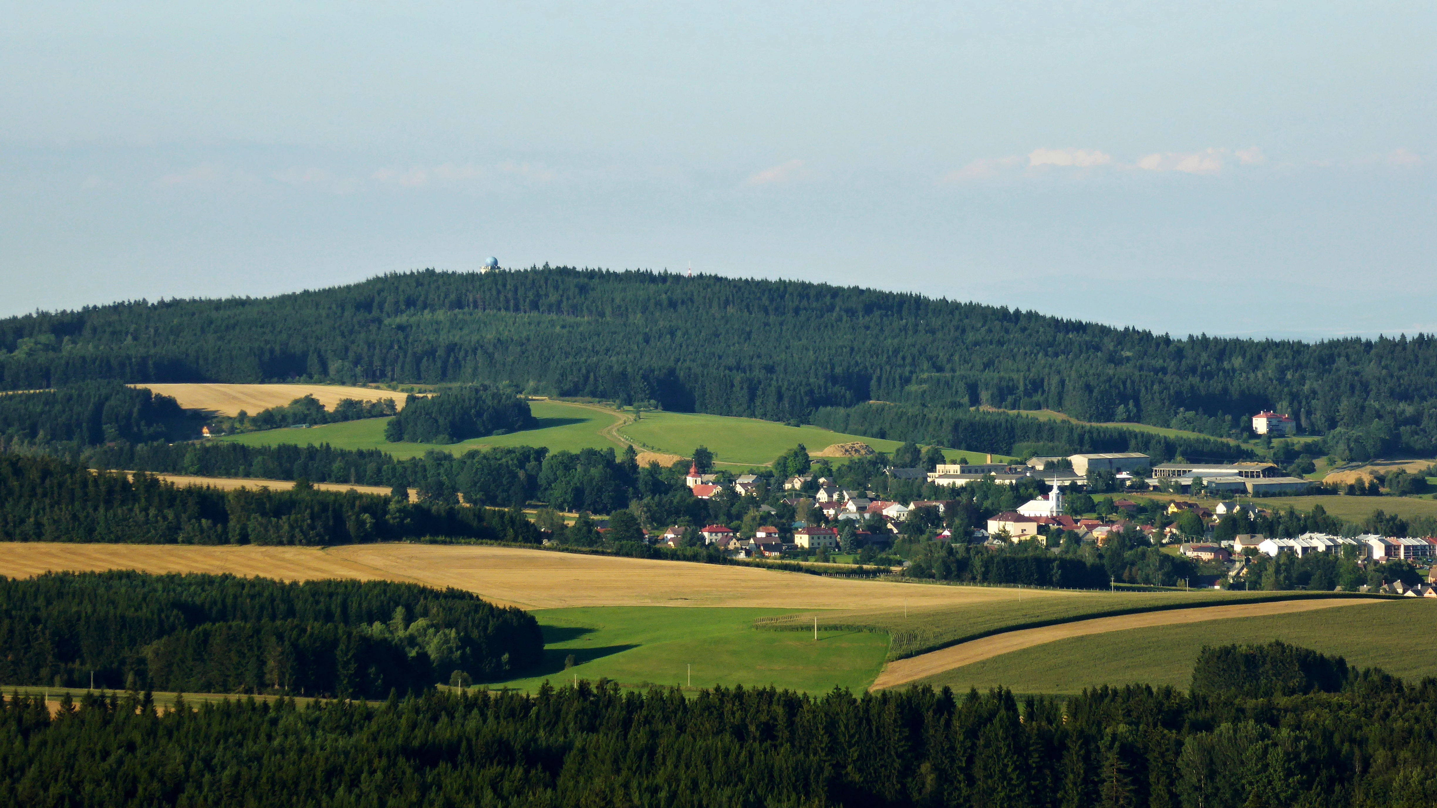 "Buchtův" hill (813 meters above sea level) above the municipality "Sněžné" in the "Pohledeckoskalské" Highlands, view from the top of the "Pasecká" Rocks (819 meters above sea level). At of the top the radiolocation tower with cupola on the roof in of altitude of 840 m, the highest fixed point connected to the ground in "Pohledeckoskalské" Highlands, also in "Žďarské" Hills and "Hornosvratecká" Highlands. Locality in the Protected Landscape Area "Žďárské" Hills. Photo-location: Czechia, "Vysočina" Region, village "Studnice" (part of town "Nové Město na Moravě), "Pohledeckoskalská" Highlands, "Pasecká" rock (view from rock).